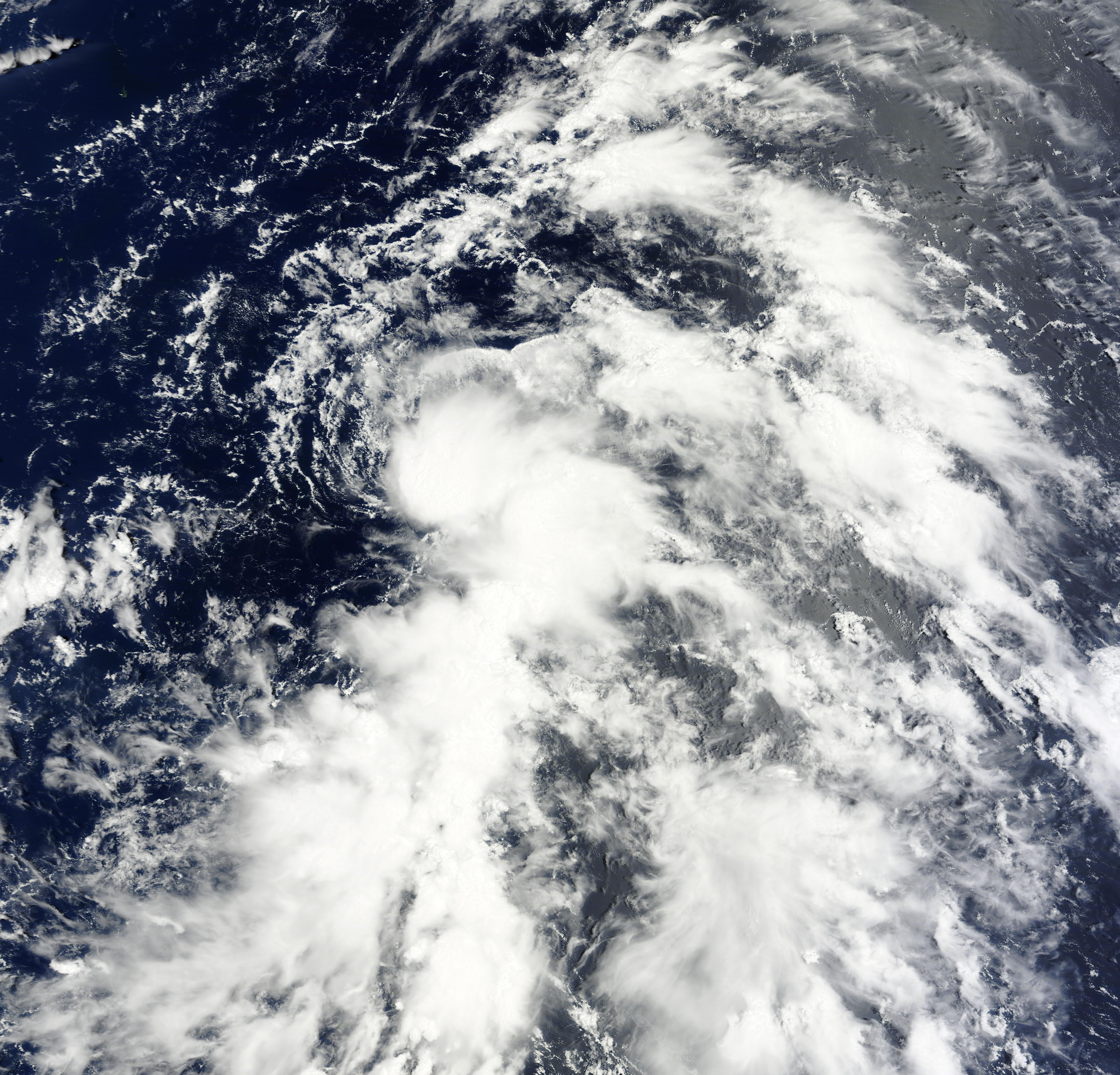 The Japan Meteorological Agency's Tropical Depression 21, on August 20, 2011